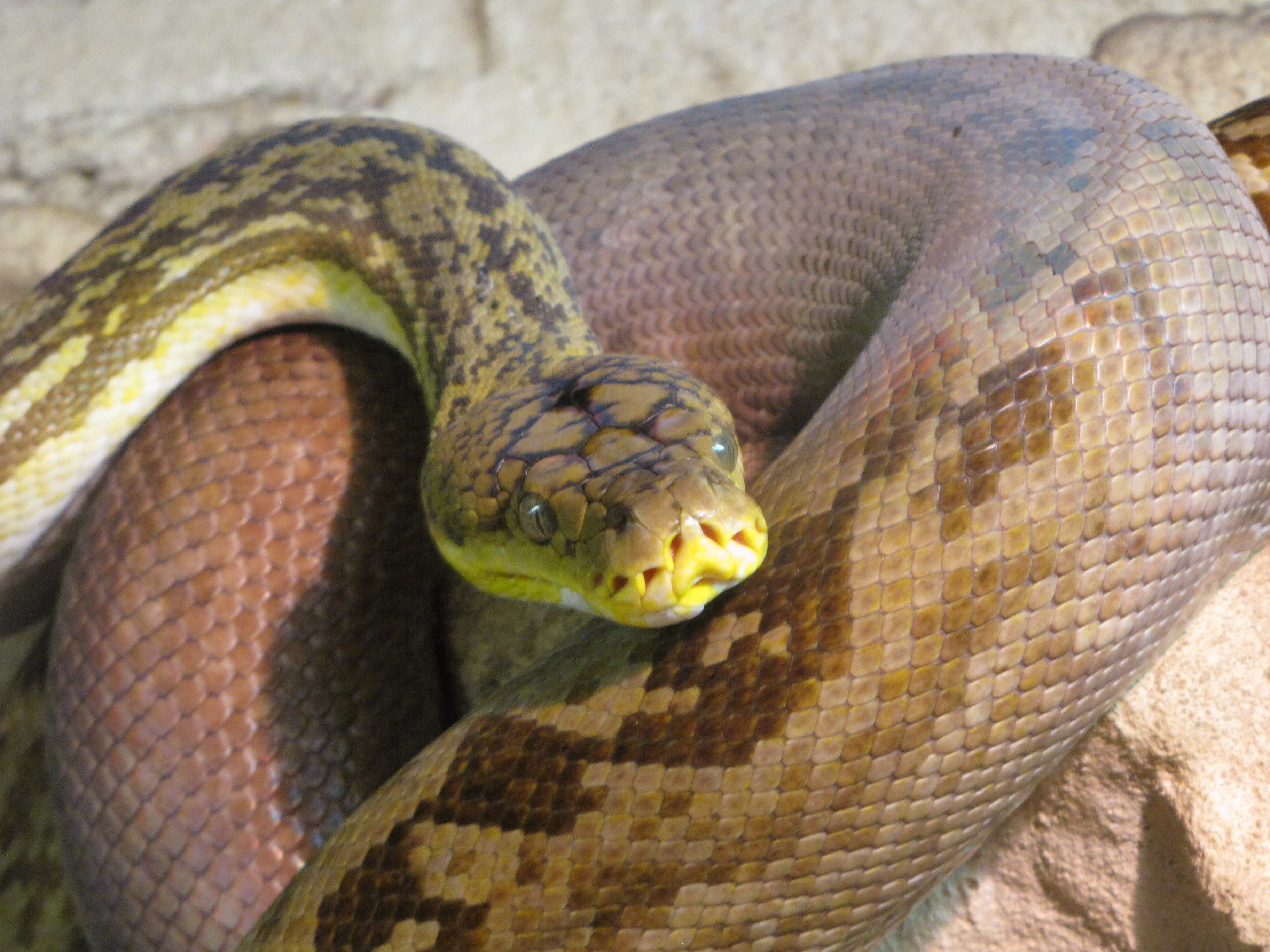 Timor python (Python timoriensis) in Helsinki Tropicario Zoo.